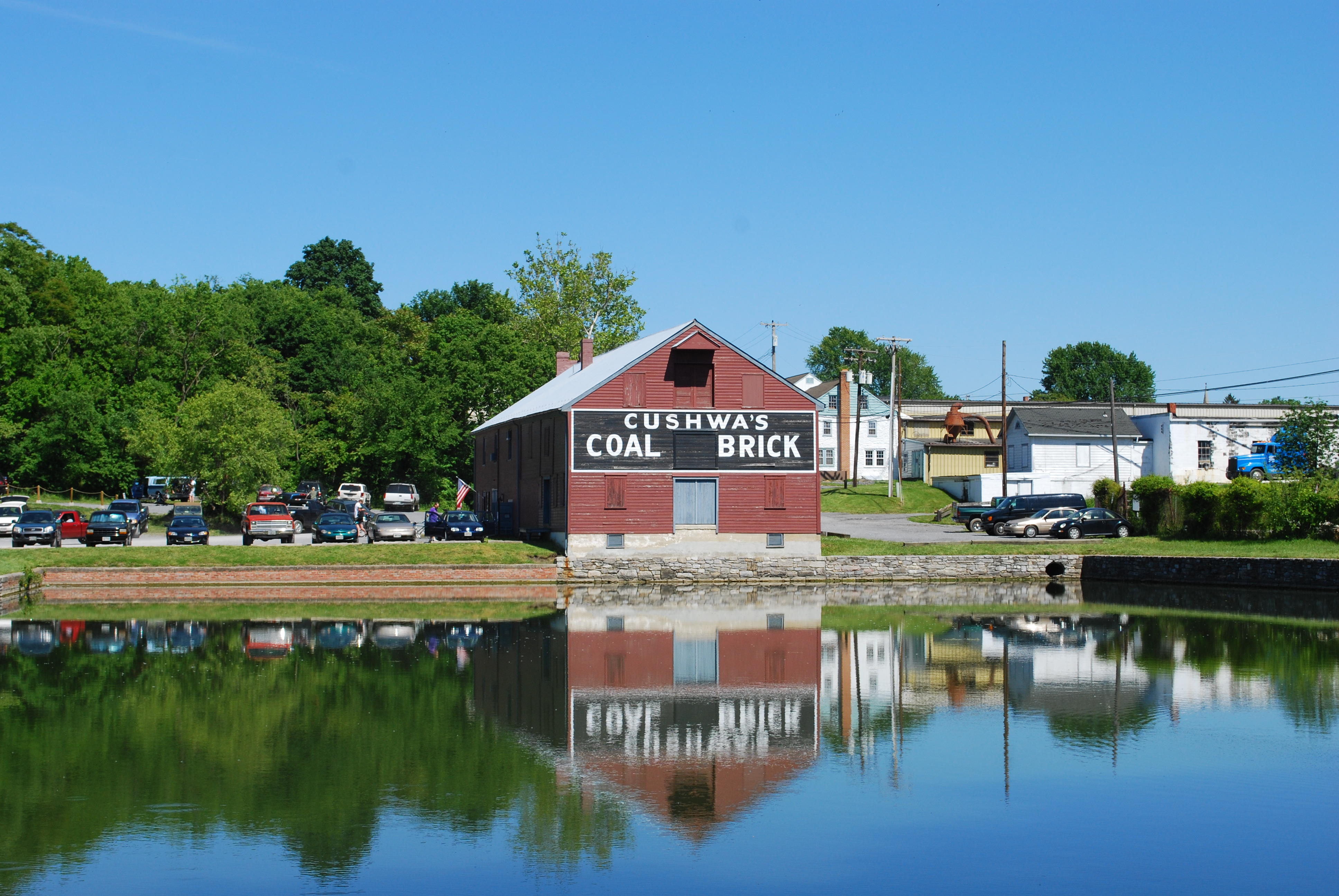 Cushwa Basin and Visitor Center along the Chesapeake & Ohio Canal near Williamsport, Maryland.